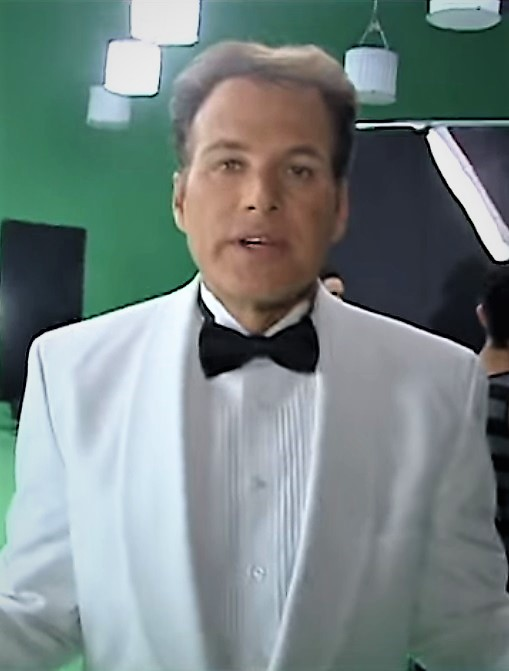 American-Venezuelan actor Luis Jose Santander on Mi Sueño Es Bailar dance program, interviewed by Dulce Osuna.